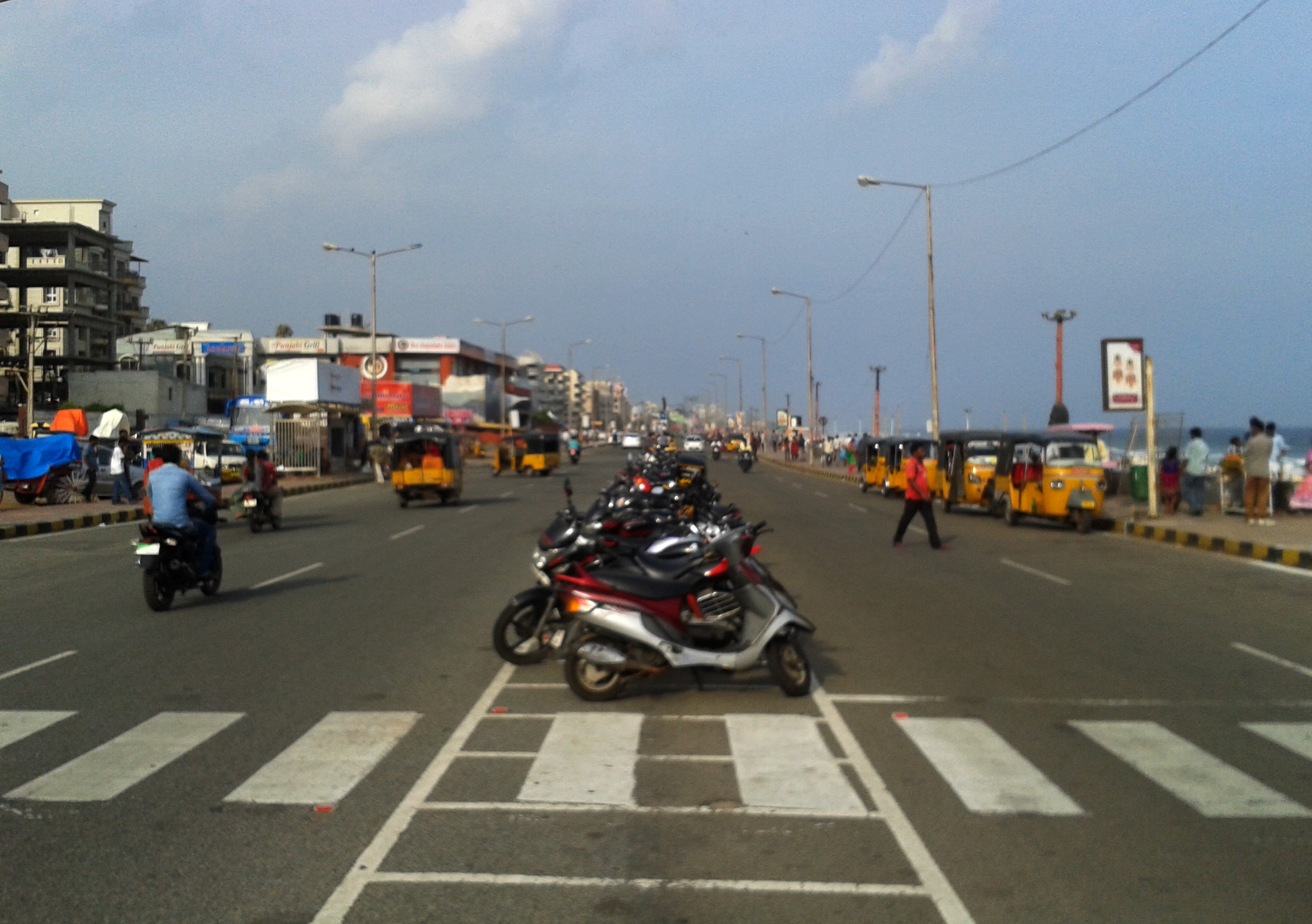 Beach road at Vizag on a Sunday evening